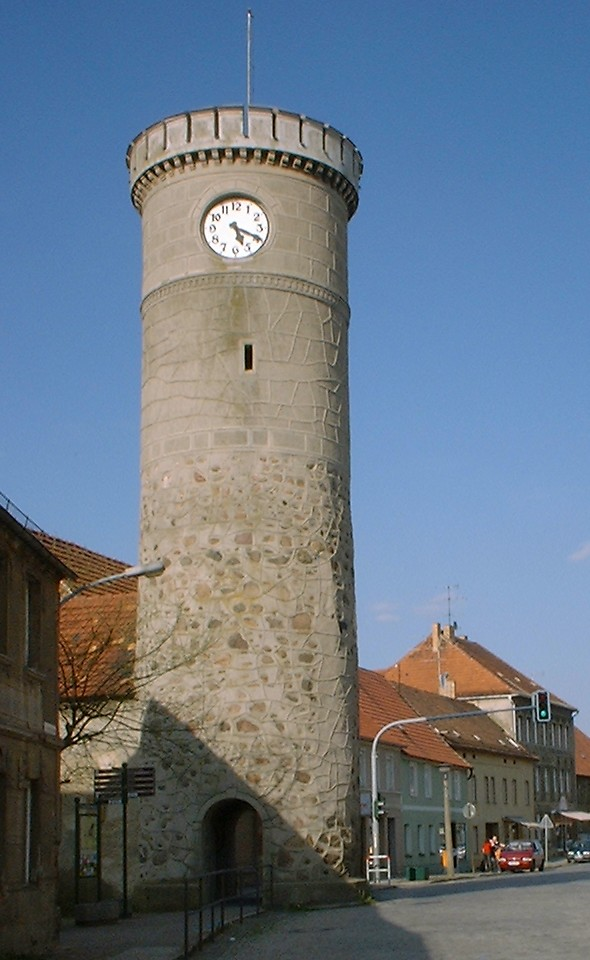 Bird tower in Dahme in Brandenburg, Germany